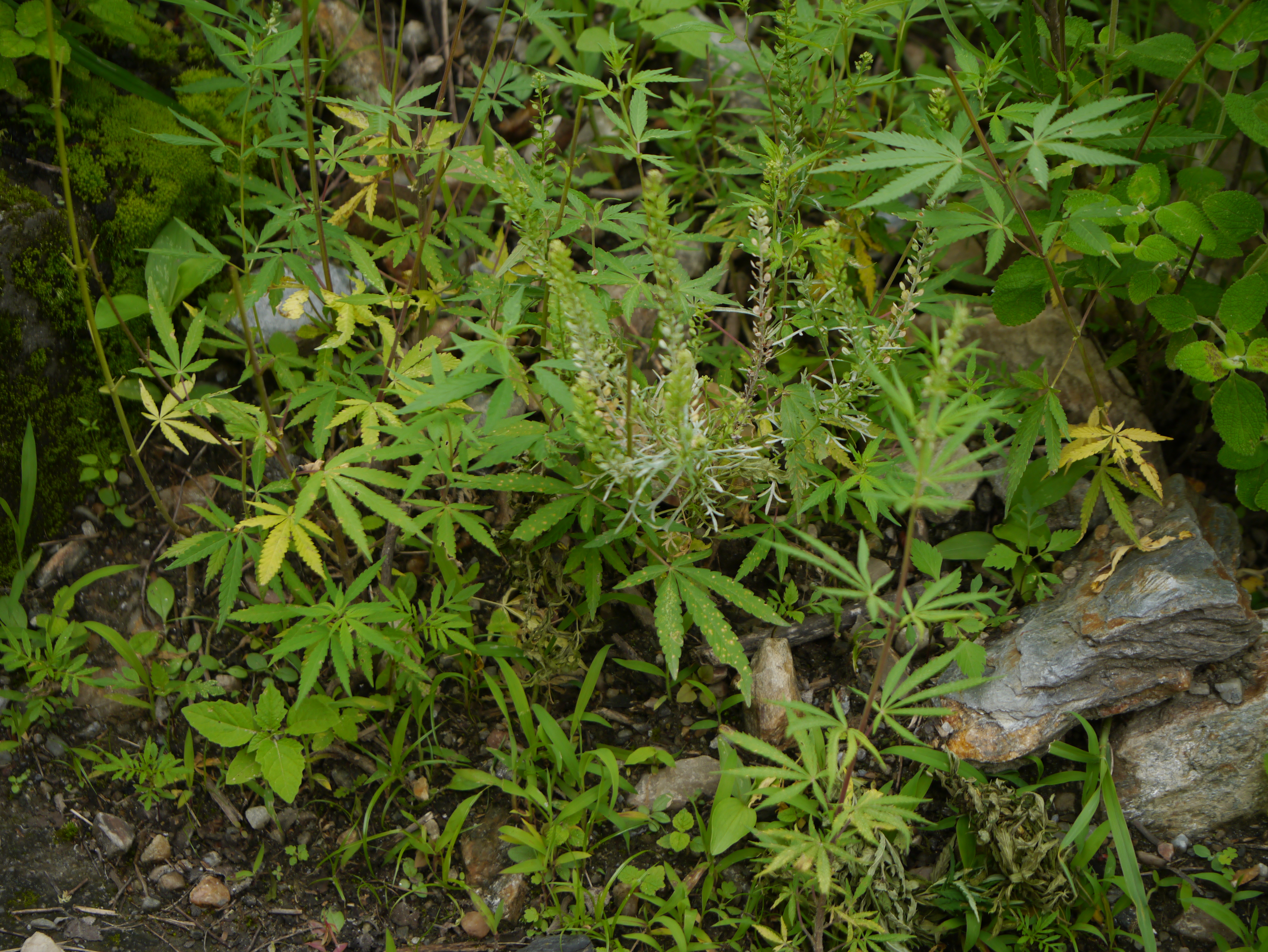 Brassicaceae (mustard, or cabbage family) » Lepidium apetalum Willd. lep-PID-ee-um -- from the Greek lepis (scale), referring to the shape of the seed pods a-PET-al-um -- without petals commonly known as: common peppergrass, pepperweed, pepperwort (generic), poor mans pepper, prairie peppergrass • Nepalese: दर्या केन darya ken • Tibetan: khan thog pa Native to: central Asia, Himalayas, eastern Asia References: NPGS / GRIN • PFAF • eFlora